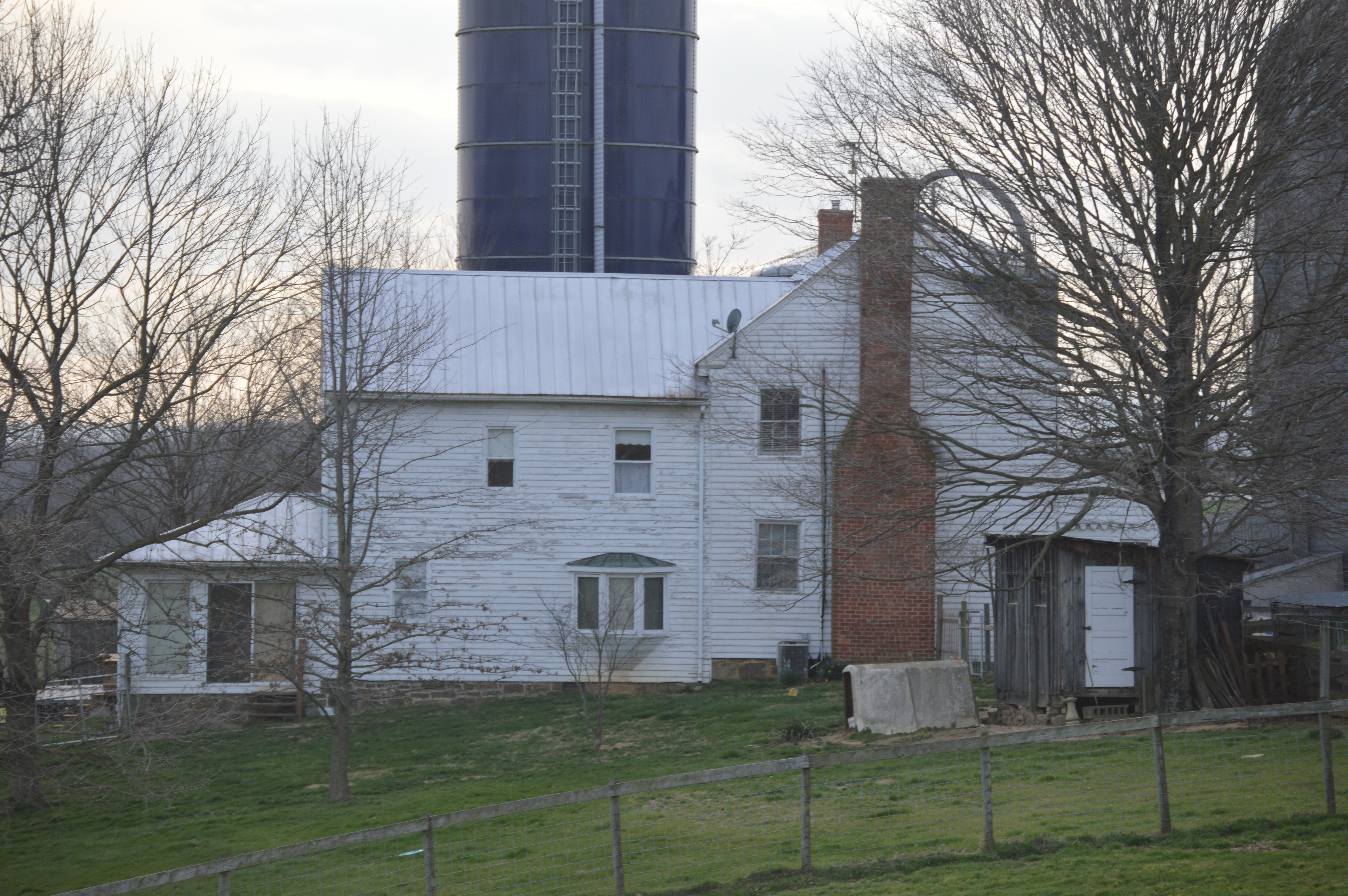 Eastern side of the Adam Wall House, located along Merrimac Road just west of Blacksburg in Montgomery County, Virginia, United States. Built in 1850, it is listed on the National Register of Historic Places.